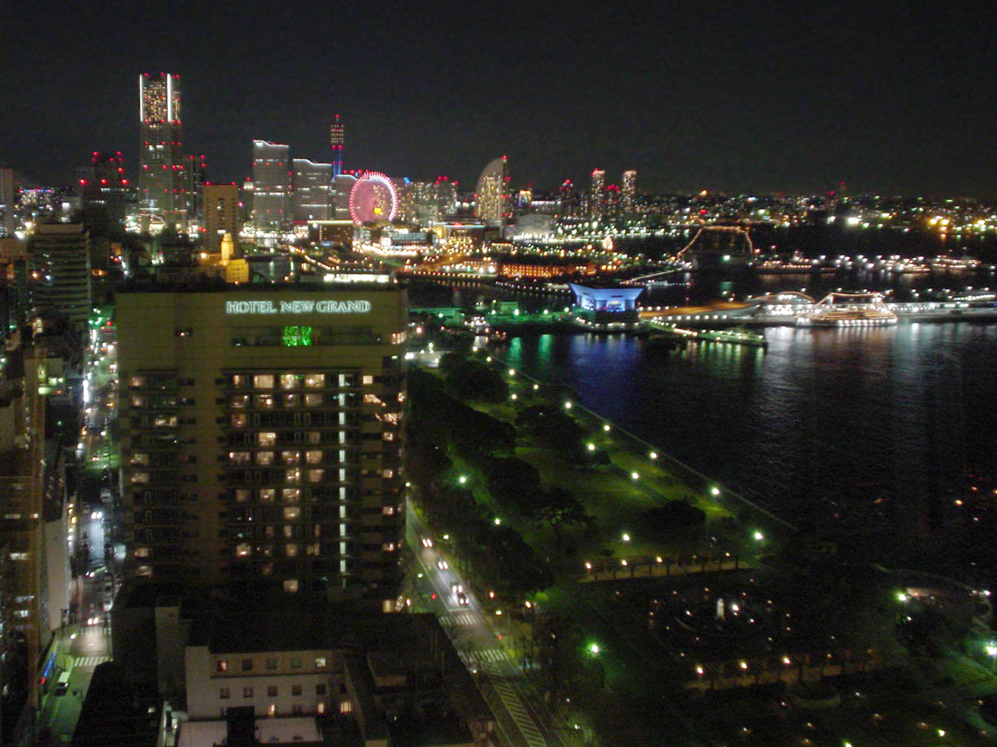 View from the viewing platform of Yokohama Marine Tower.